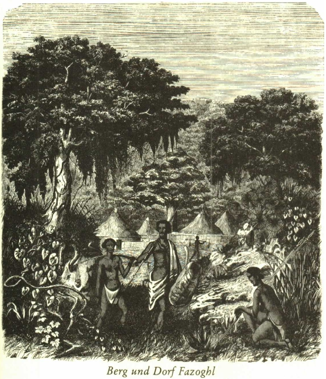 Village in Fazughli as depicted by Alfred Brehm.